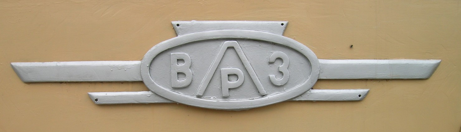 The emblem of VARZ on LM-49-tramcar.